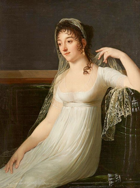 Désirée Clary, Queen of Sweden and Norway